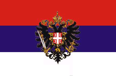 Flag of Serbian Vojvodina (1848-1849)